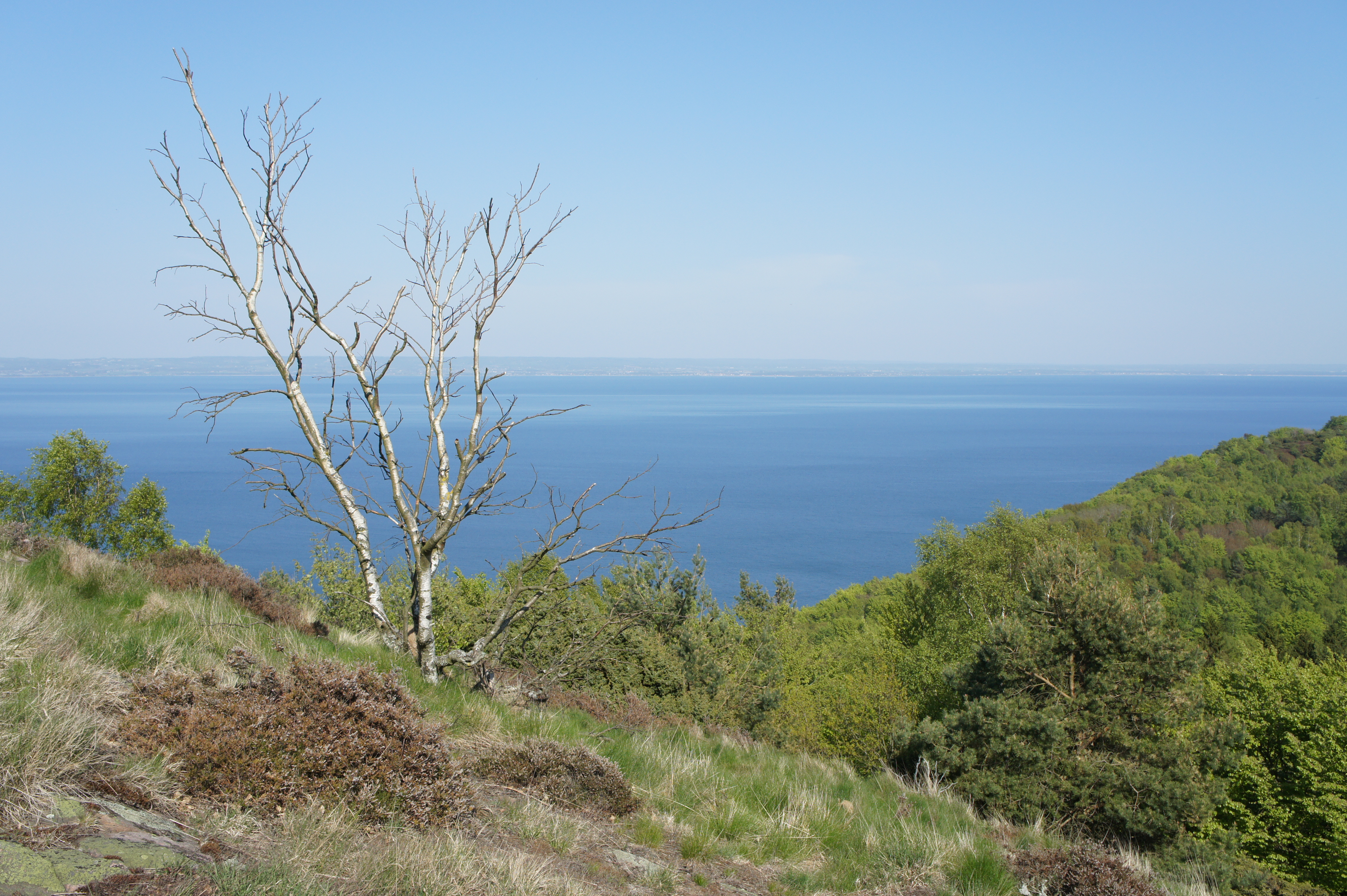 View from the mountain Håkull at Kullaberg, Sweden